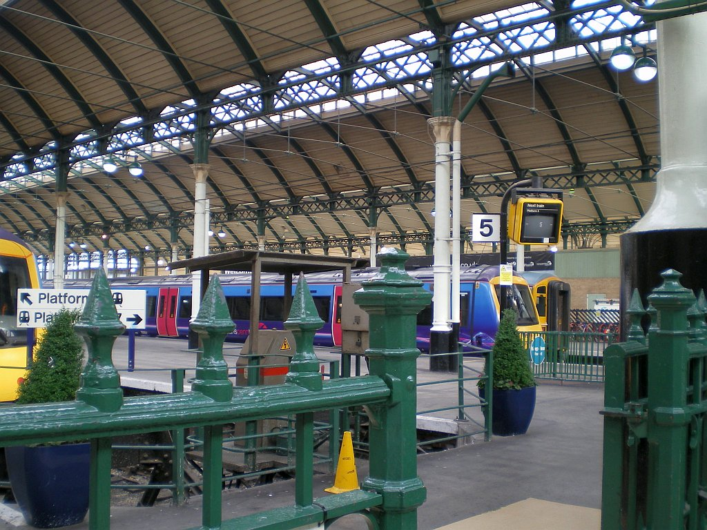 Kingston upon Hull, railway station Wewnątrz dworca kolejowego w Kingston upon Hull w Wielkiej Brytanii